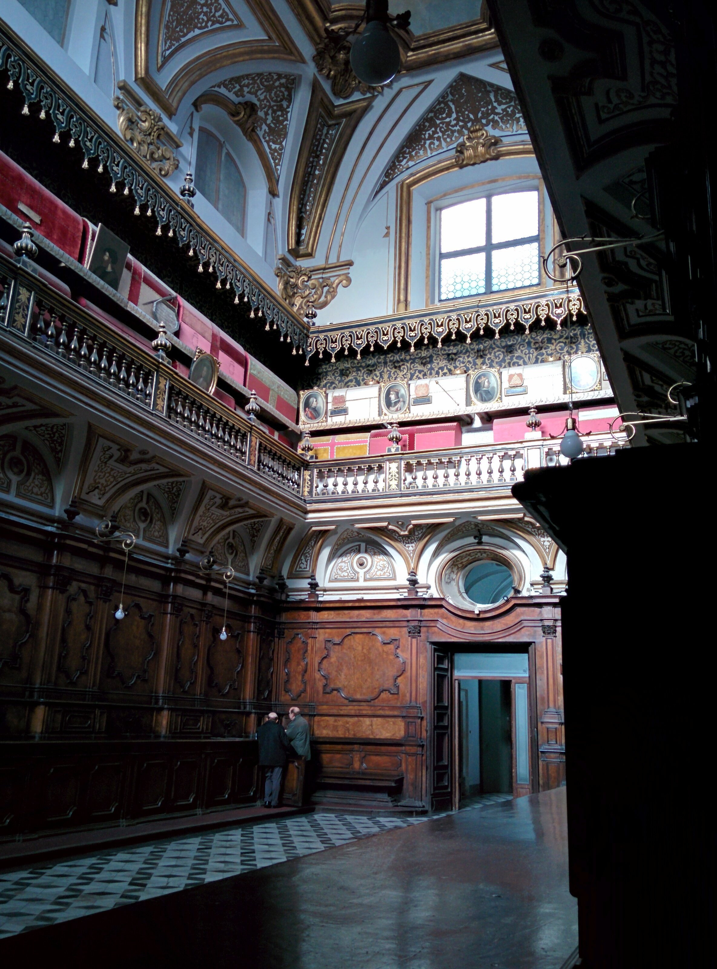 Coffins of members of the royal Aragonese family (covered in red, upper level). The church of San Domenico Maggiore, Naples (Italy).